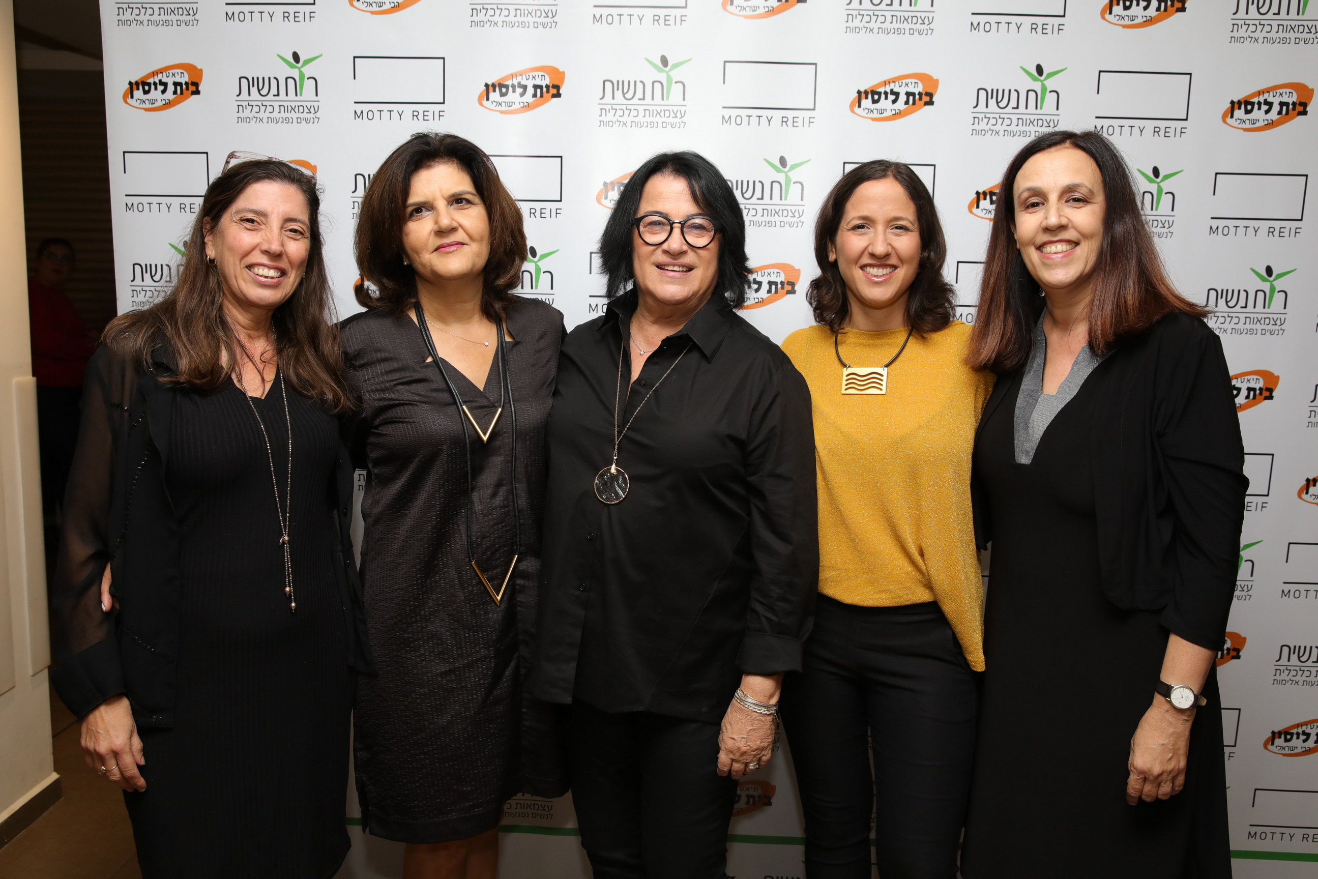 ruach-nashit